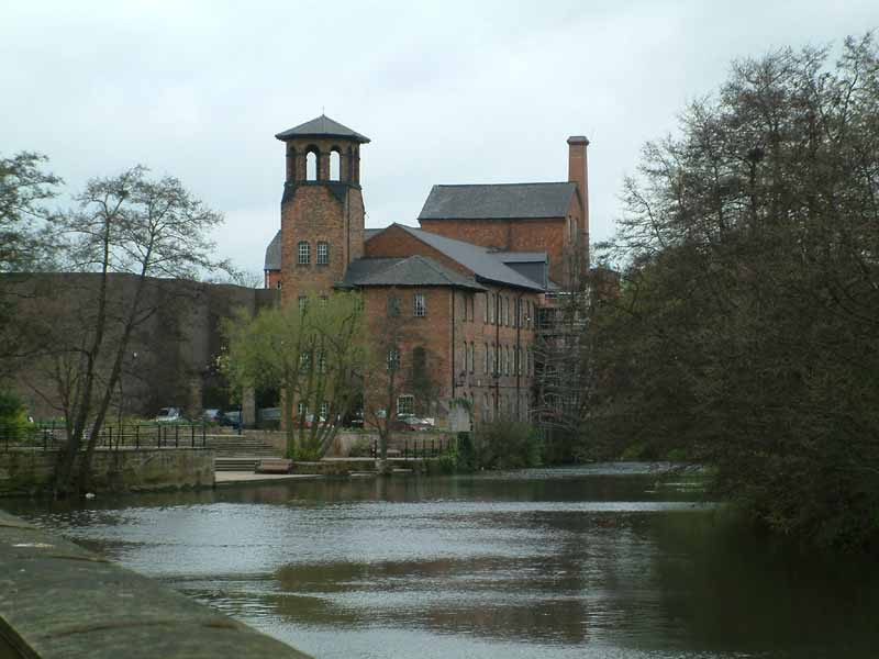 Derby Industrial Museum The Derby Industrial Museum;Silk Mill Worlds Heritage Site